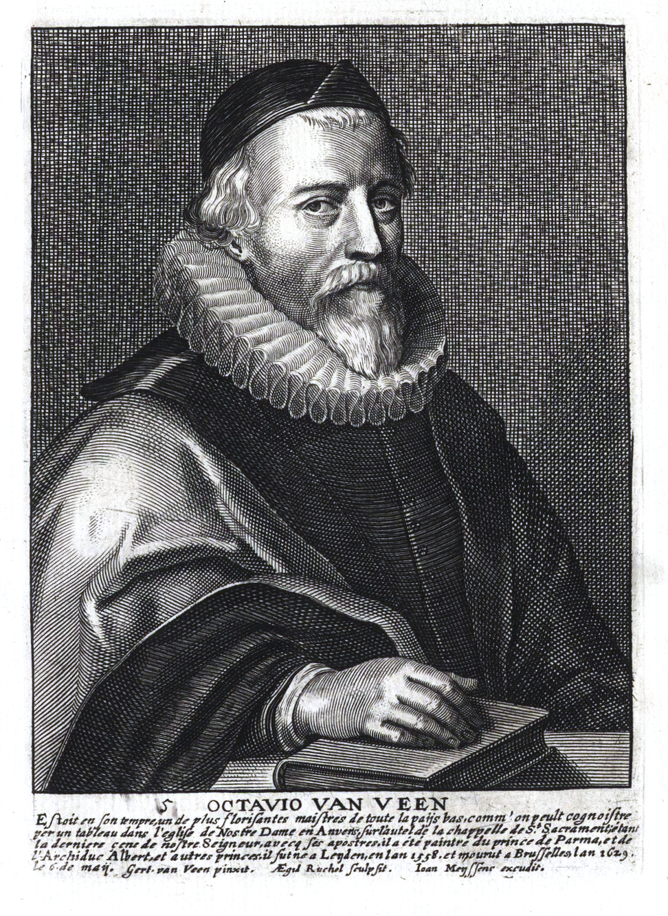 Portrait of Octavio van Veen in Cornelis de Bie's Gulden Cabinet.